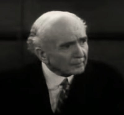 Emmett King in Manhattan Tower - cropped screenshot